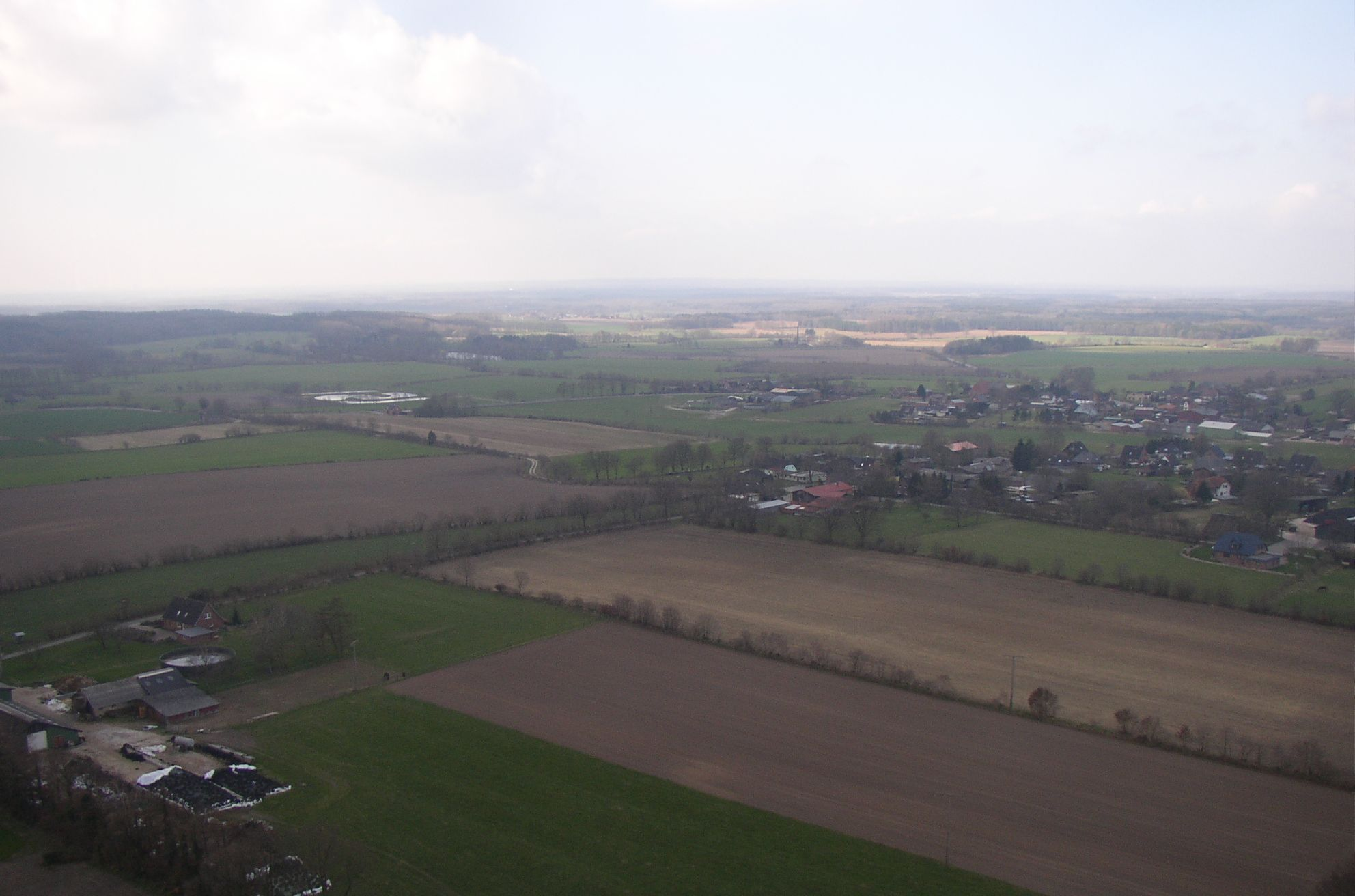 View from the radio tower in Hennstedt over the village